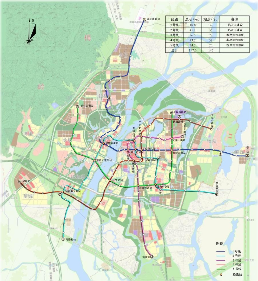 Optimal Adjusted Plan of Nanchang Rail Transit Line 3 & Line 4